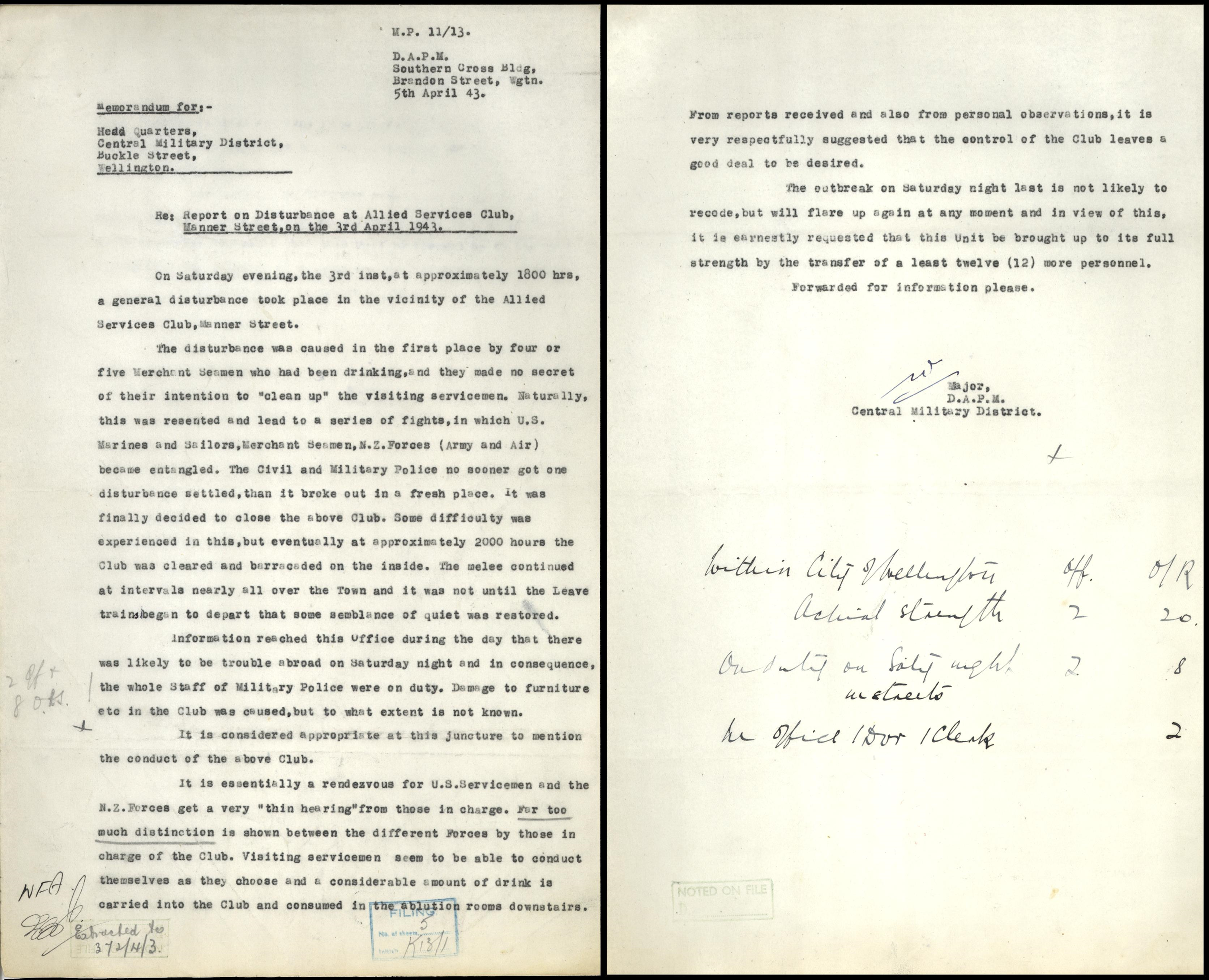 D.A.P.M. report to the Headquarters about the Battle of the Manners Street that happened on 3 April 1943